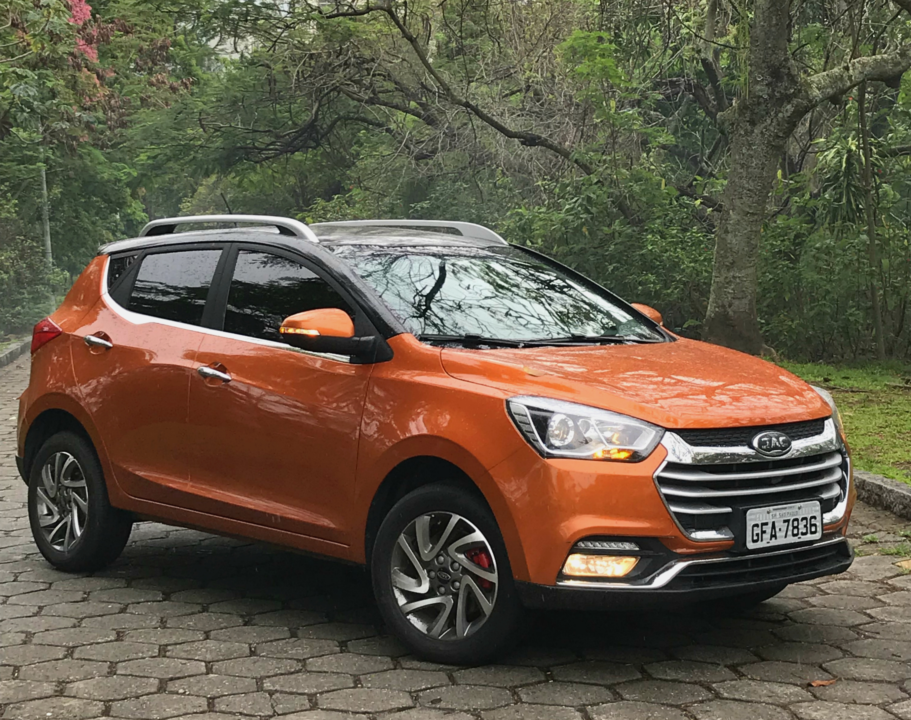 Chinese car JAC T40, the S2 version for Brazilian market